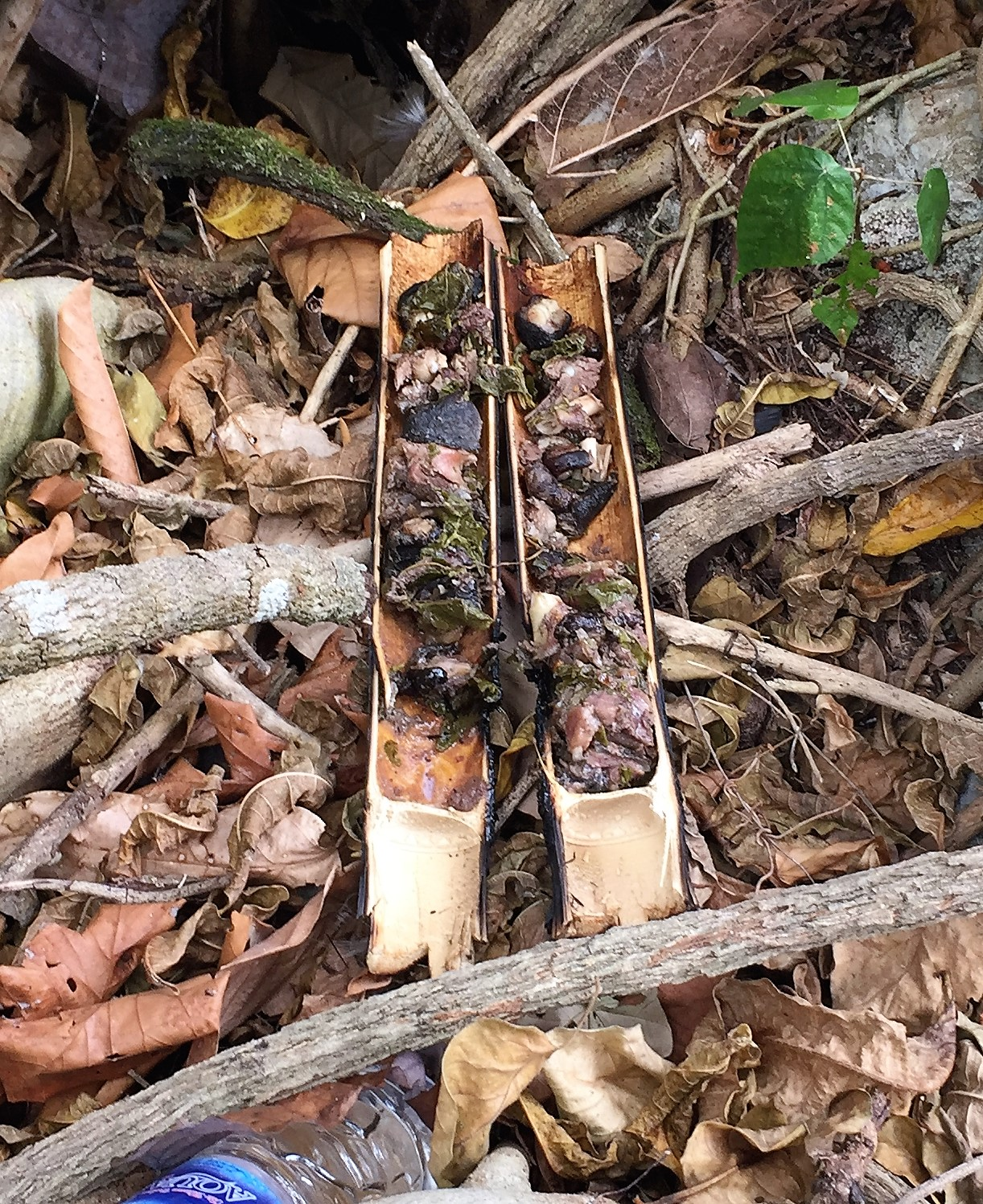 Tukir